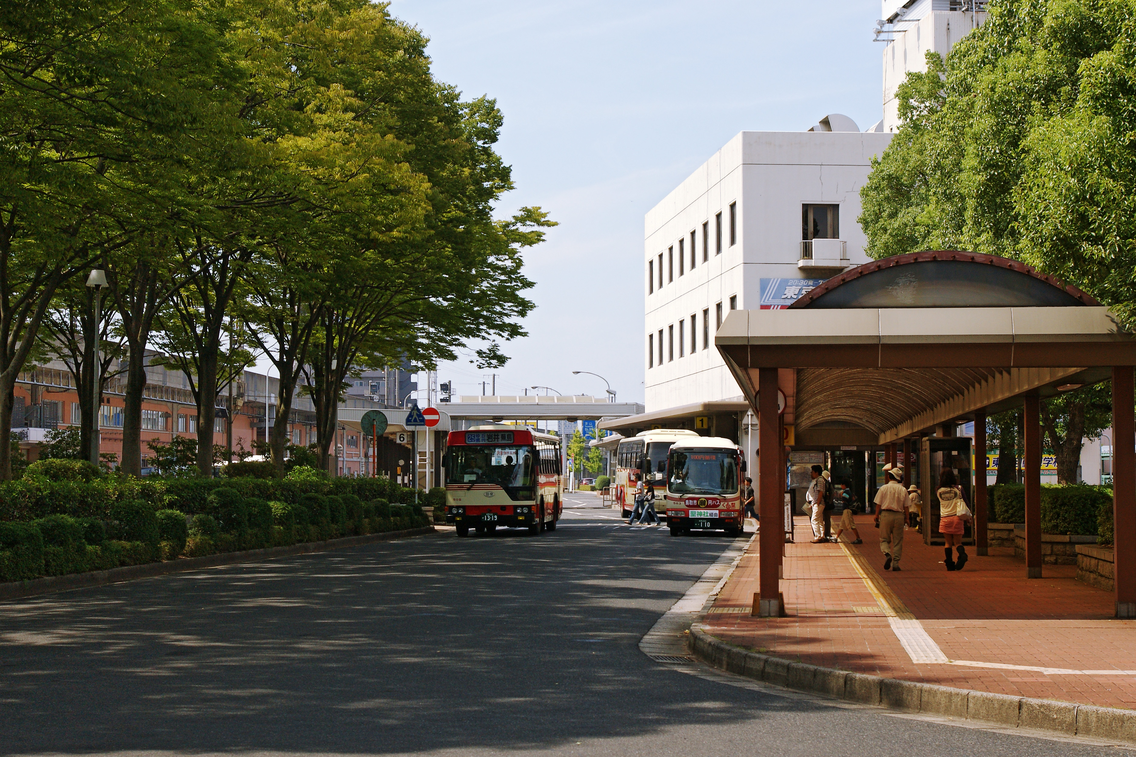 Tottori Station Bus Terminal in Tottori, Tottori prefecture, Japan